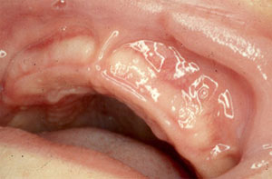 Baby gums before of eruption of deciduous teeth.